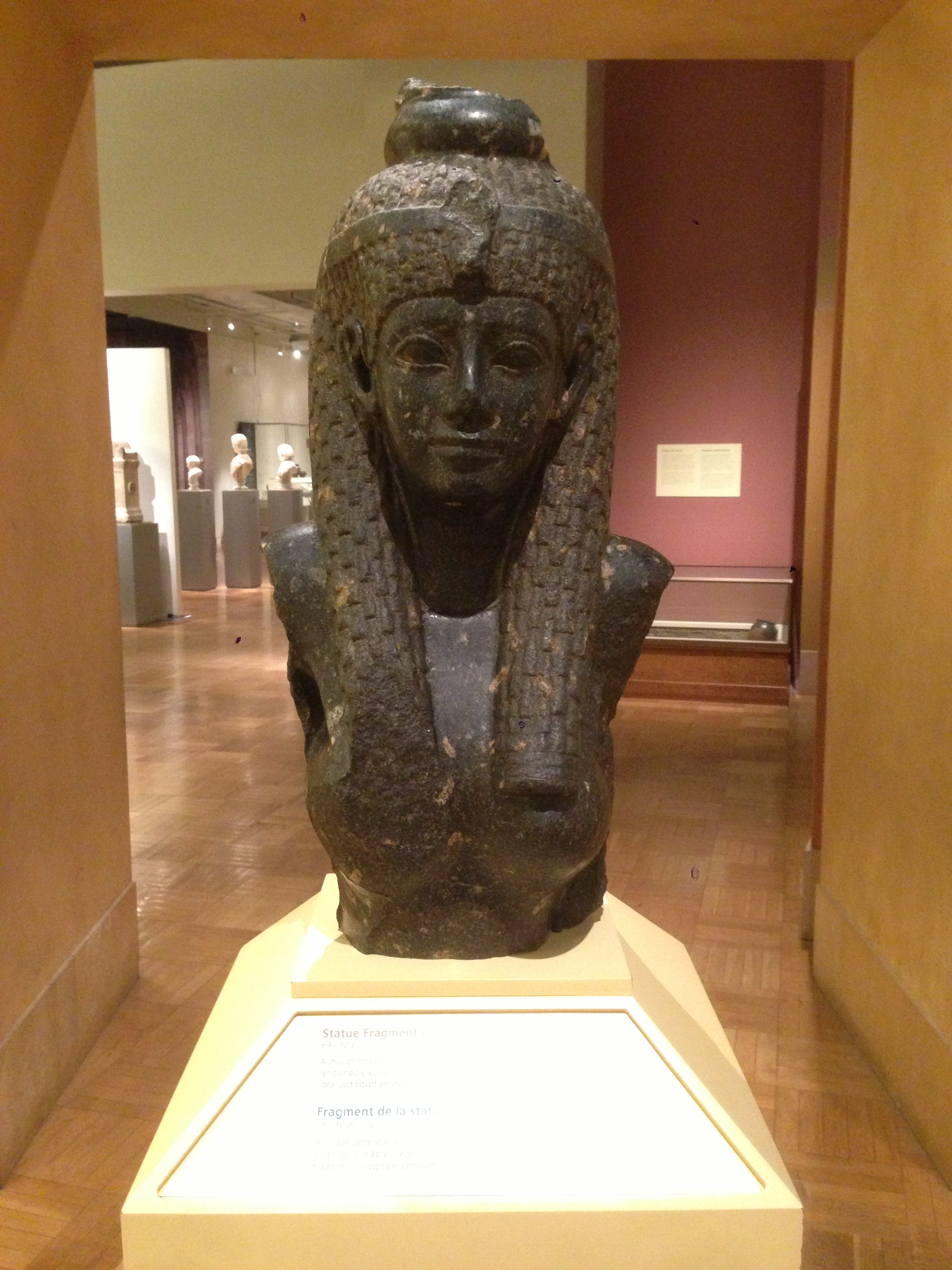 A head-on shot of the Bust of Cleopatra at the Royal Ontario Museum